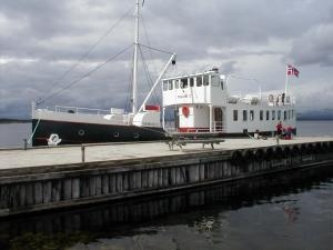 The former steamship SS Faemund II at Elga harbour on lake Femund, Norway.